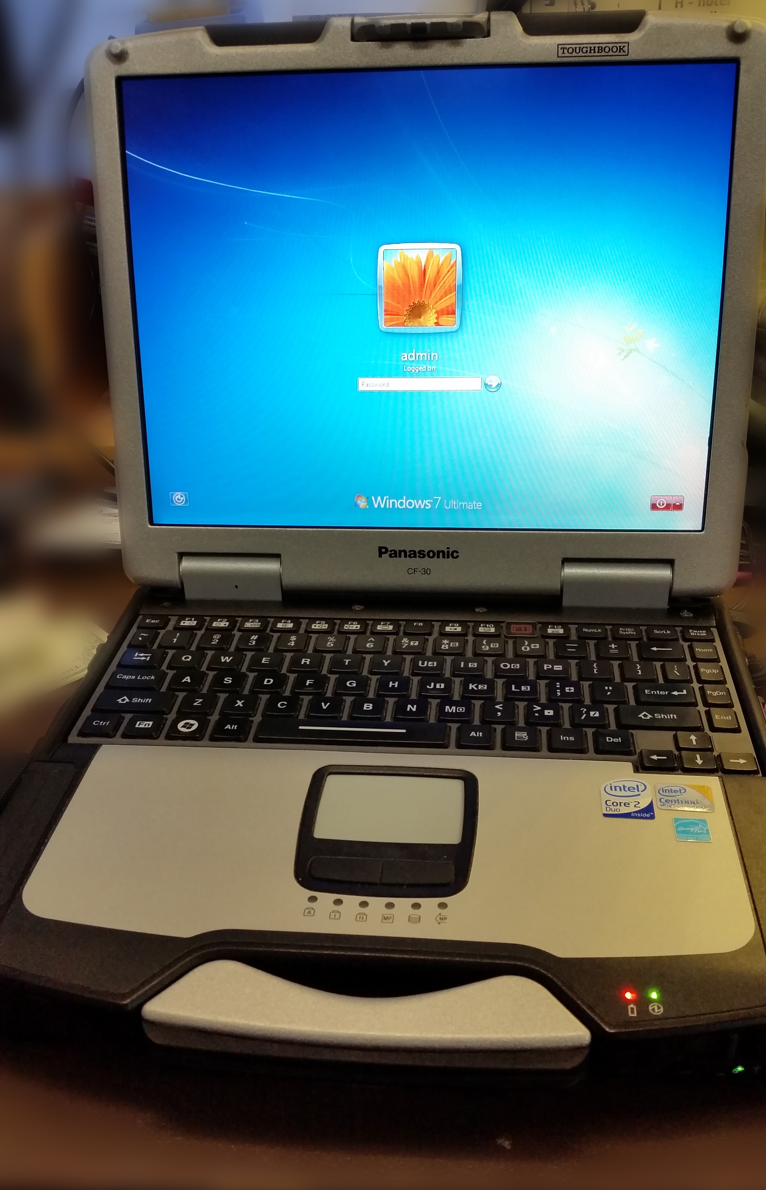 This is the Panasonic CF-30 Toughbook with a 1.60GHz Core 2 Duo, 4 gigabytes DDR2 running Windows 7 Ultimate x64.